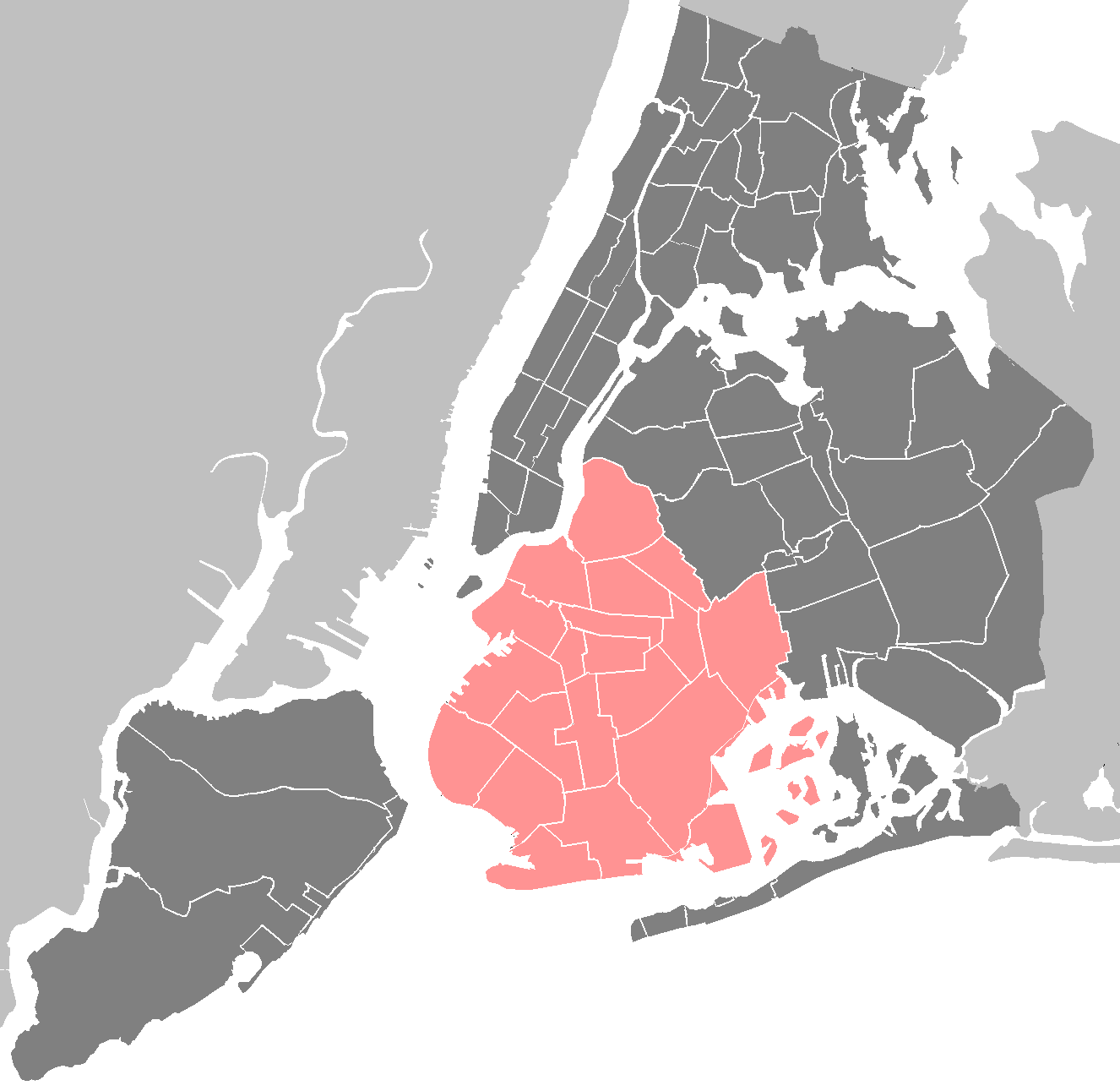 Category:Maps of New York City: New York City - Brooklyn.PNG